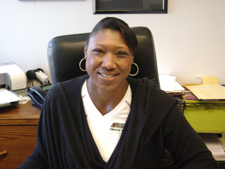 Coach Connie Price-Smith